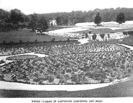 Briarcliff's School of Practical Agriculture landscape garden. From page 329.